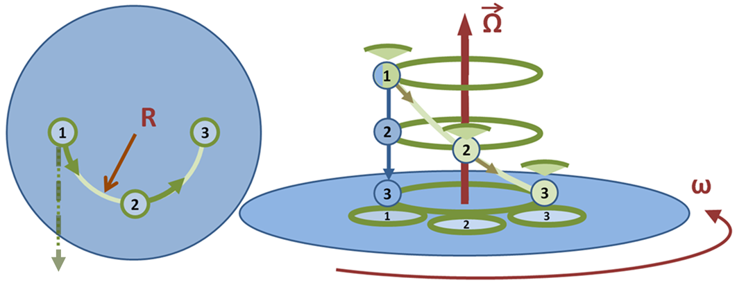 Object falling vertically in rotating frame, and spiral path in stationary frame